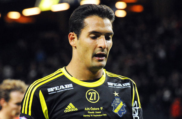 Celso Borges during the 2013 match AIK-Östers IF